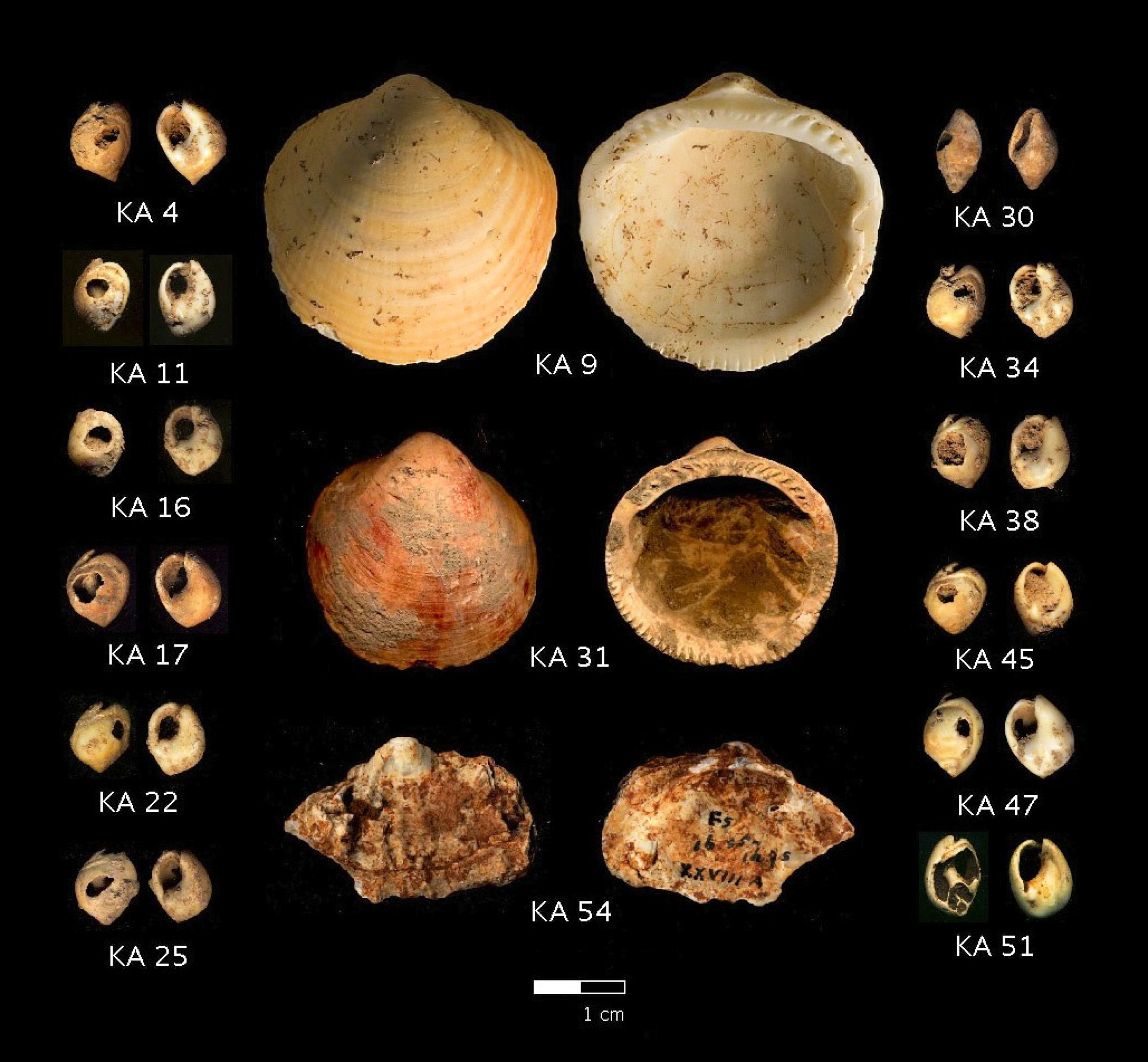 Prehistoric Shells from Ksar Akil, Lebanon